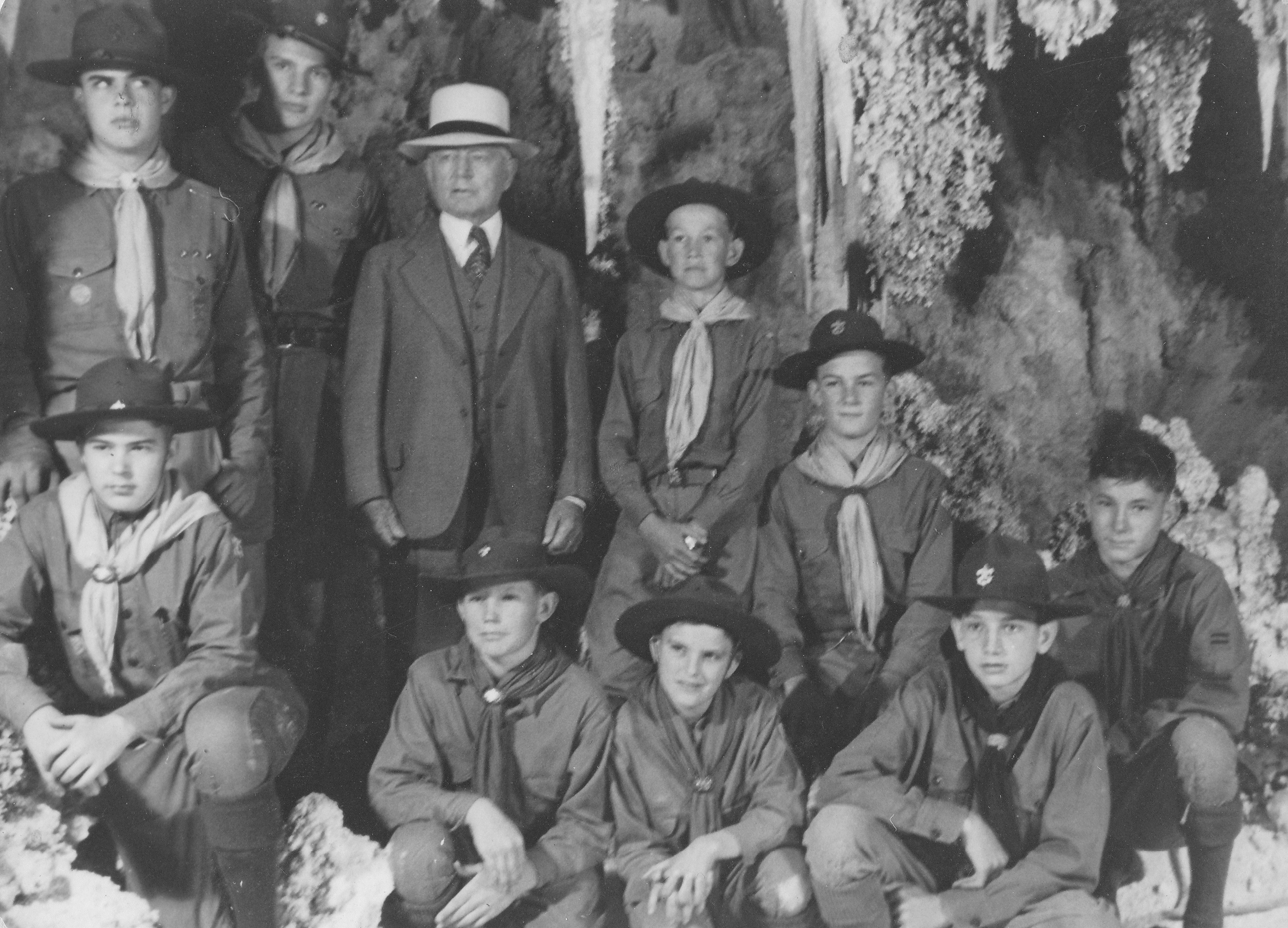 Frederick Russell Burnham on his eightieth birthday being honored by the Boy Scouts of America in Carlsbad Caverns, New Mexico